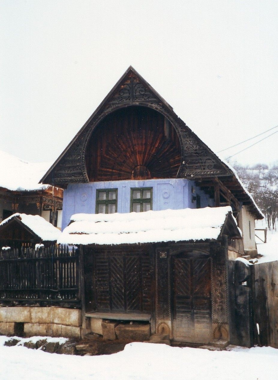 Petrinzel in winter, Transylvania